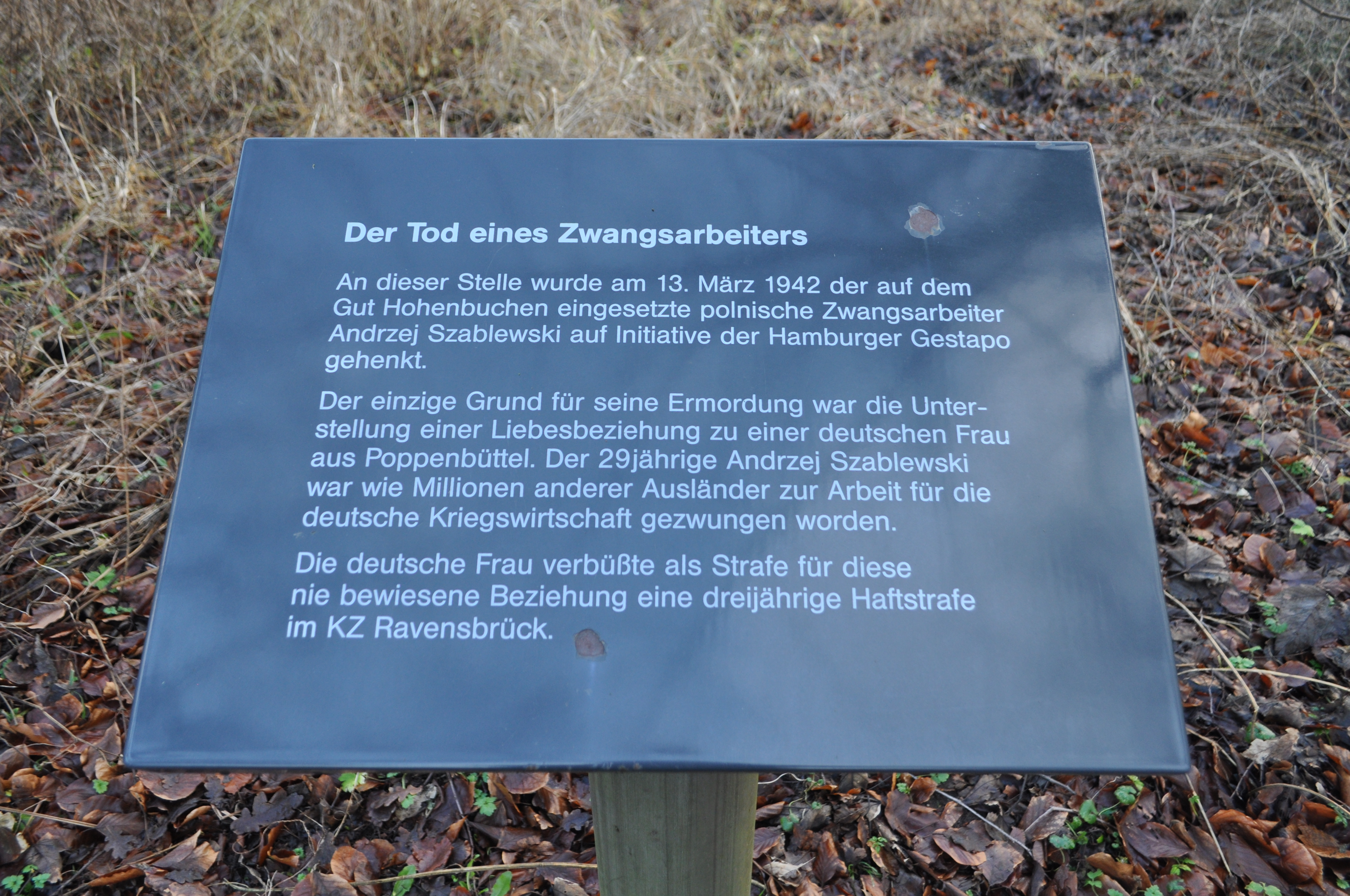 Memorial for murdered polish forced laborer Andrzej Szablewski in Hamburg.